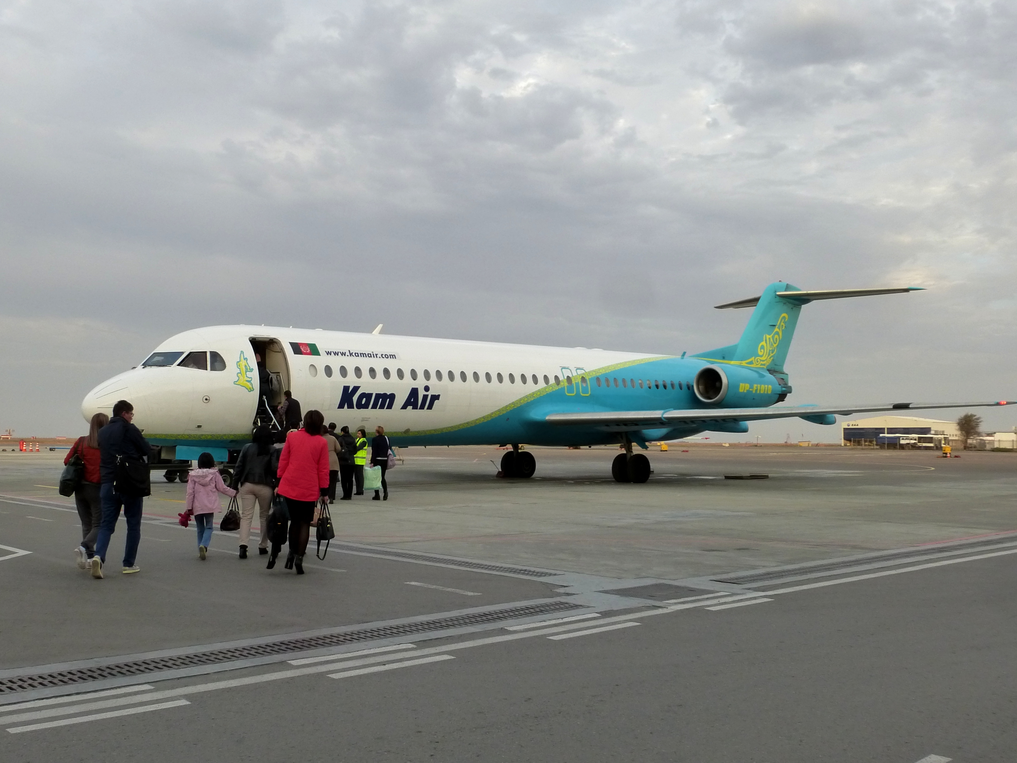 Bek Air Fokker F100 (UP-F1010) at Atyrau Airport. The aircraft still has markings of Afghan airline Kam Air which leased the aircraft from 25 June 2016 to 28 August 2016